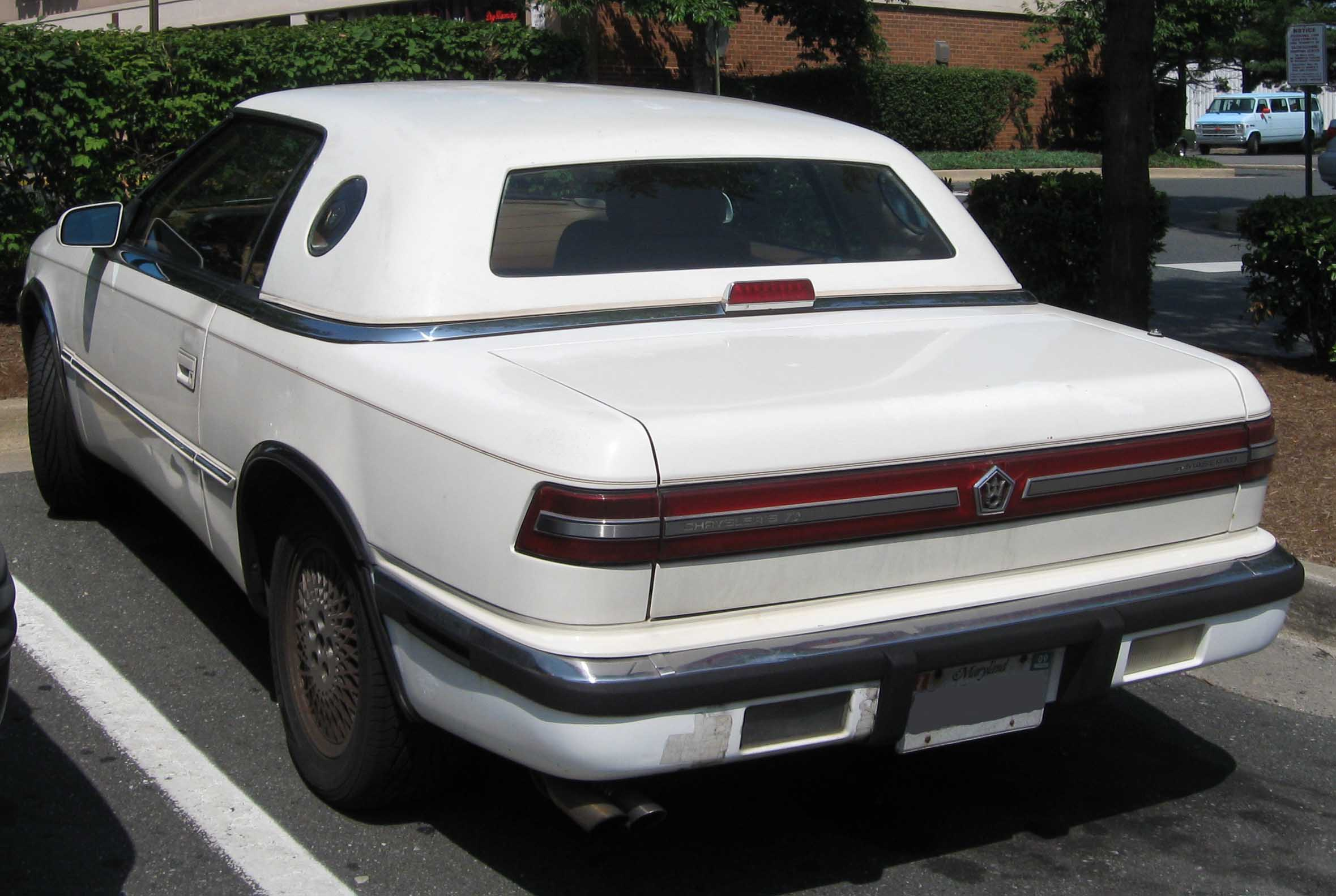 Chrysler TC by Maserati photographed in Gaithersburg, Maryland, USA.